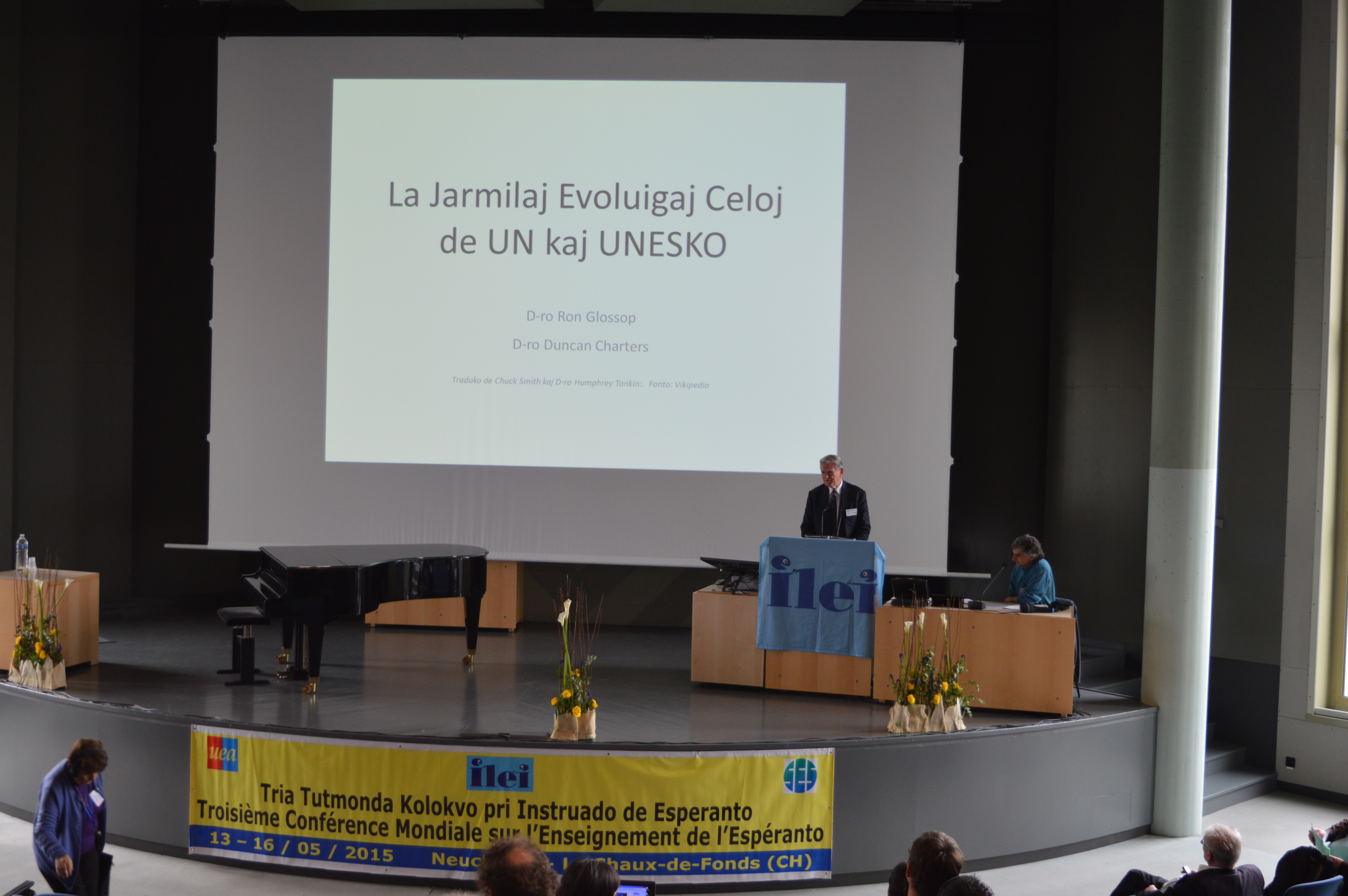 Duncan Charters speaks during the third international conference on Esperanto teachting, canton of Neuchatel, SwitzerlandEsperanto: Duncan Charters dum la tria konferenco pri Esperanto-instruado, Neŭŝatelo, Svislando